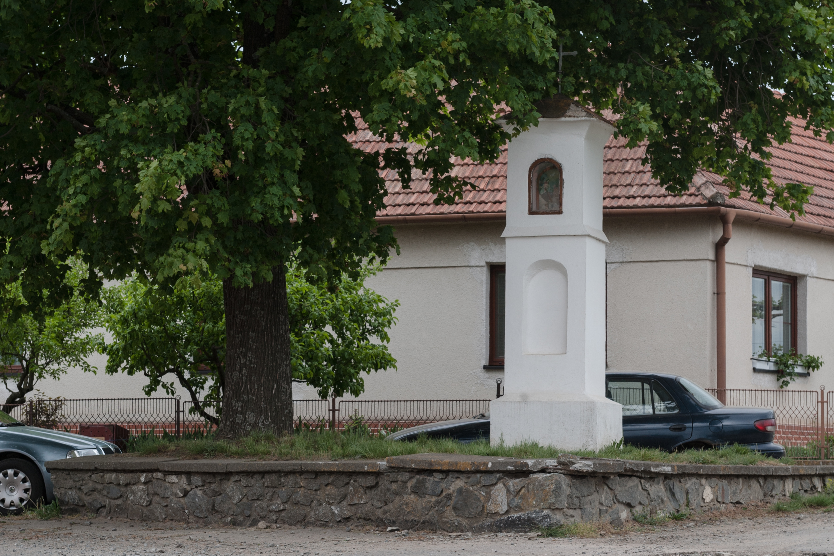 Wikitown Hustopeče: Skalice